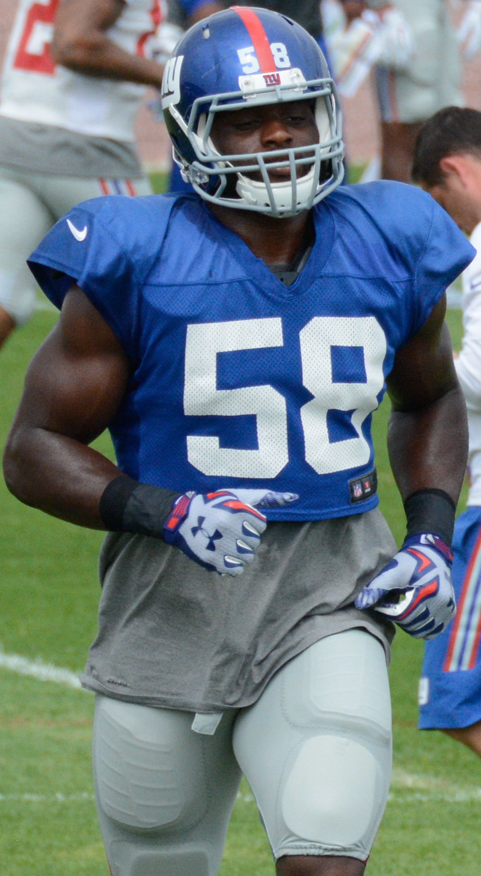 New York Giants training camp